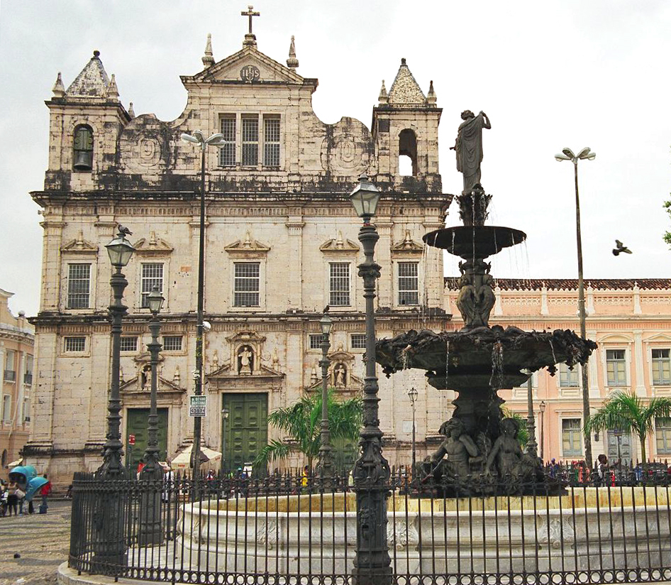 Former Jesuit Church of Salvador, Bahia, Brazil. Currently host the Arquidiocese de São Salvador da Bahia